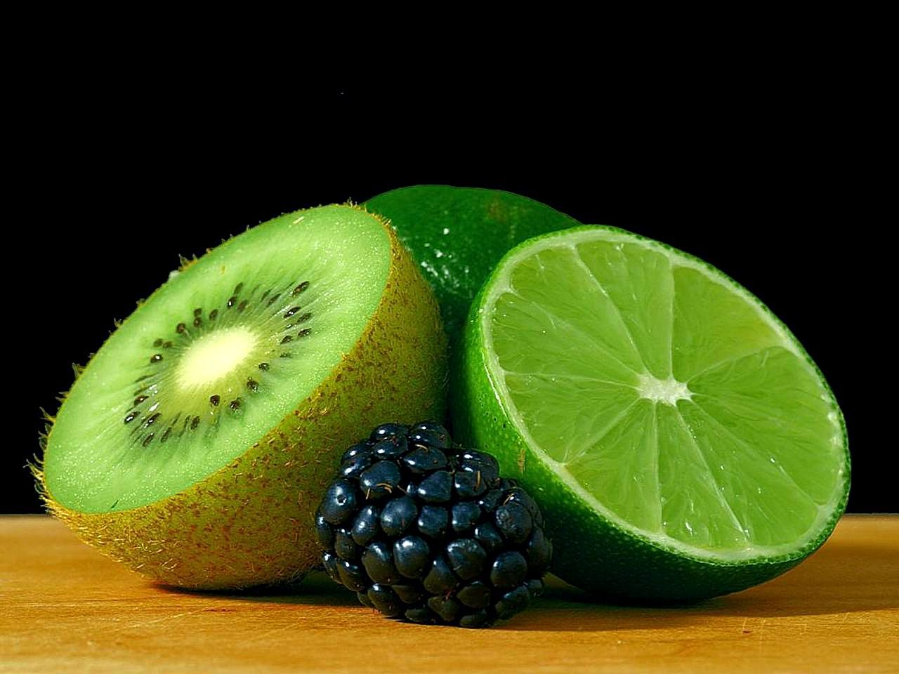 Image title: Limes kiwis berry berries Image from Public domain images website